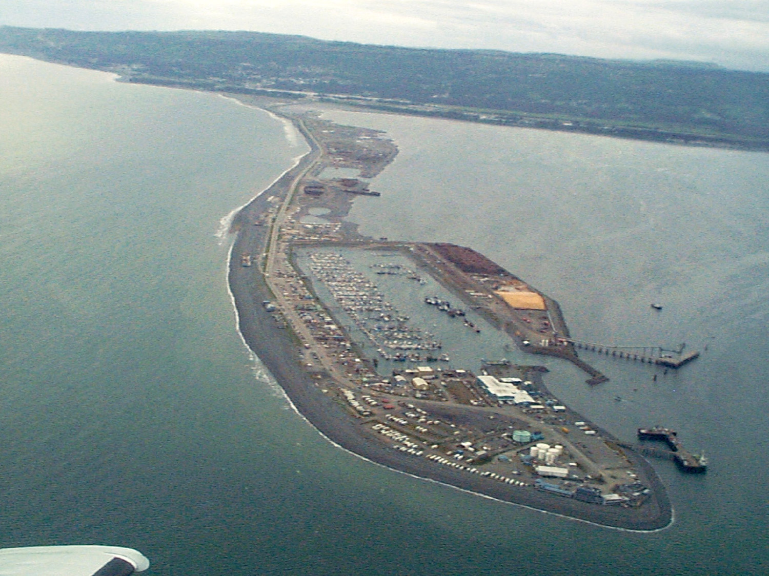 Aerial view of Homer Spit and Homer Harbor, Homer Alaska, USA.